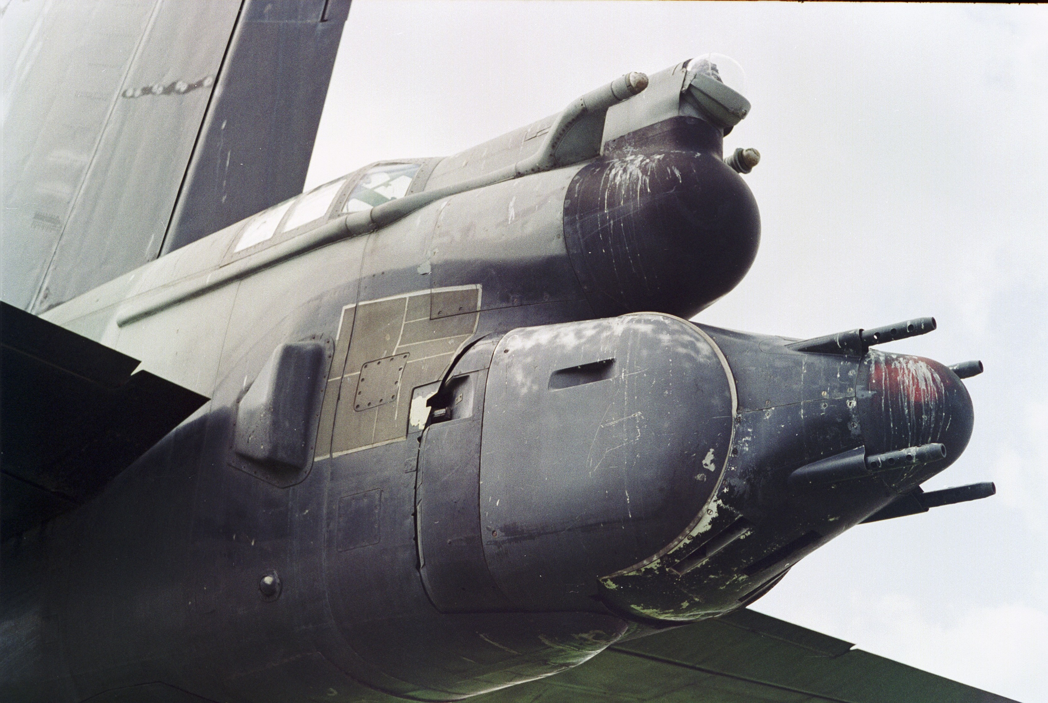 Duxford (EGSU) UK - England, April 23 1992.